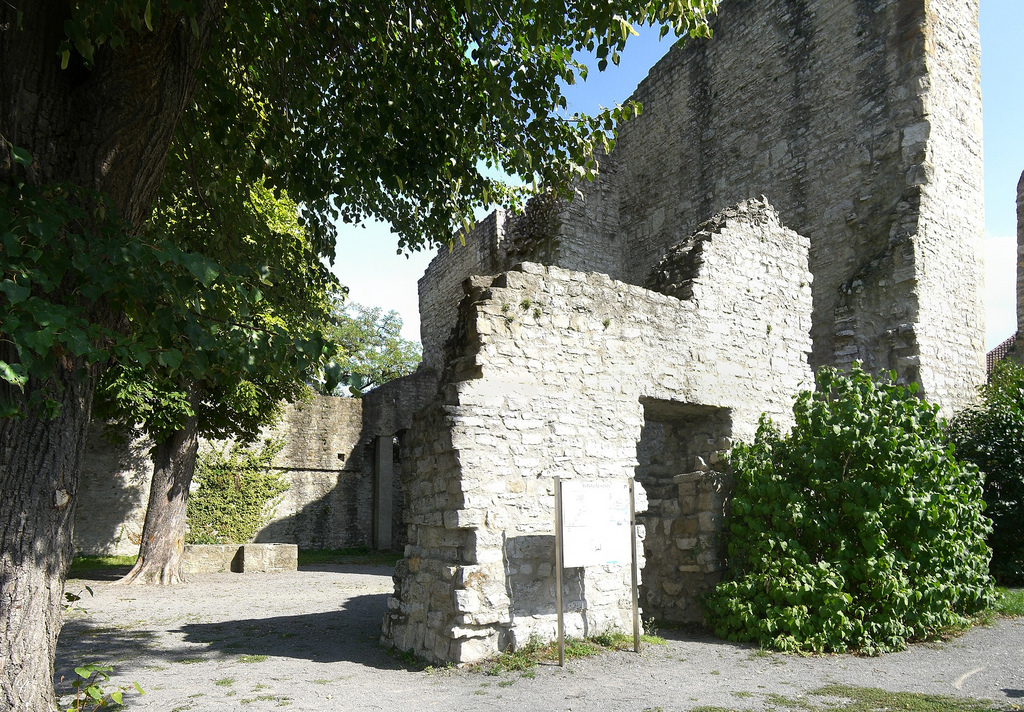 Castle ruin, Stuttgart-Hofen, Germany